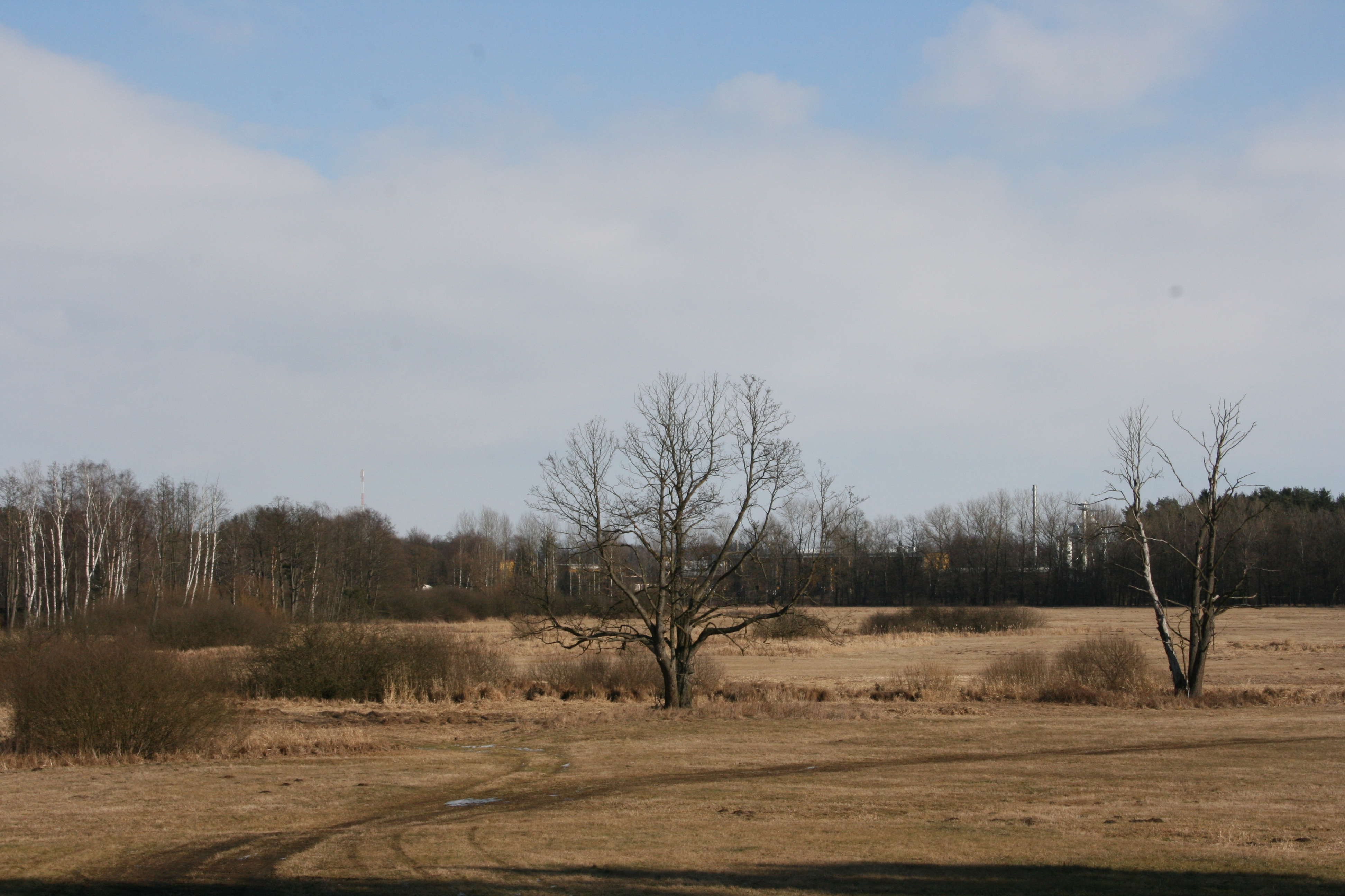 Nature reservation Dráchovské tůně near Dráchov village, Tábor District, Czech Republic.